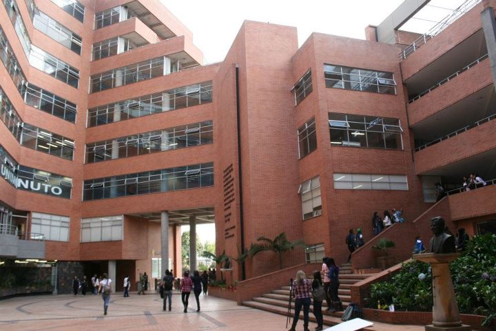 UMDSede Calle 80